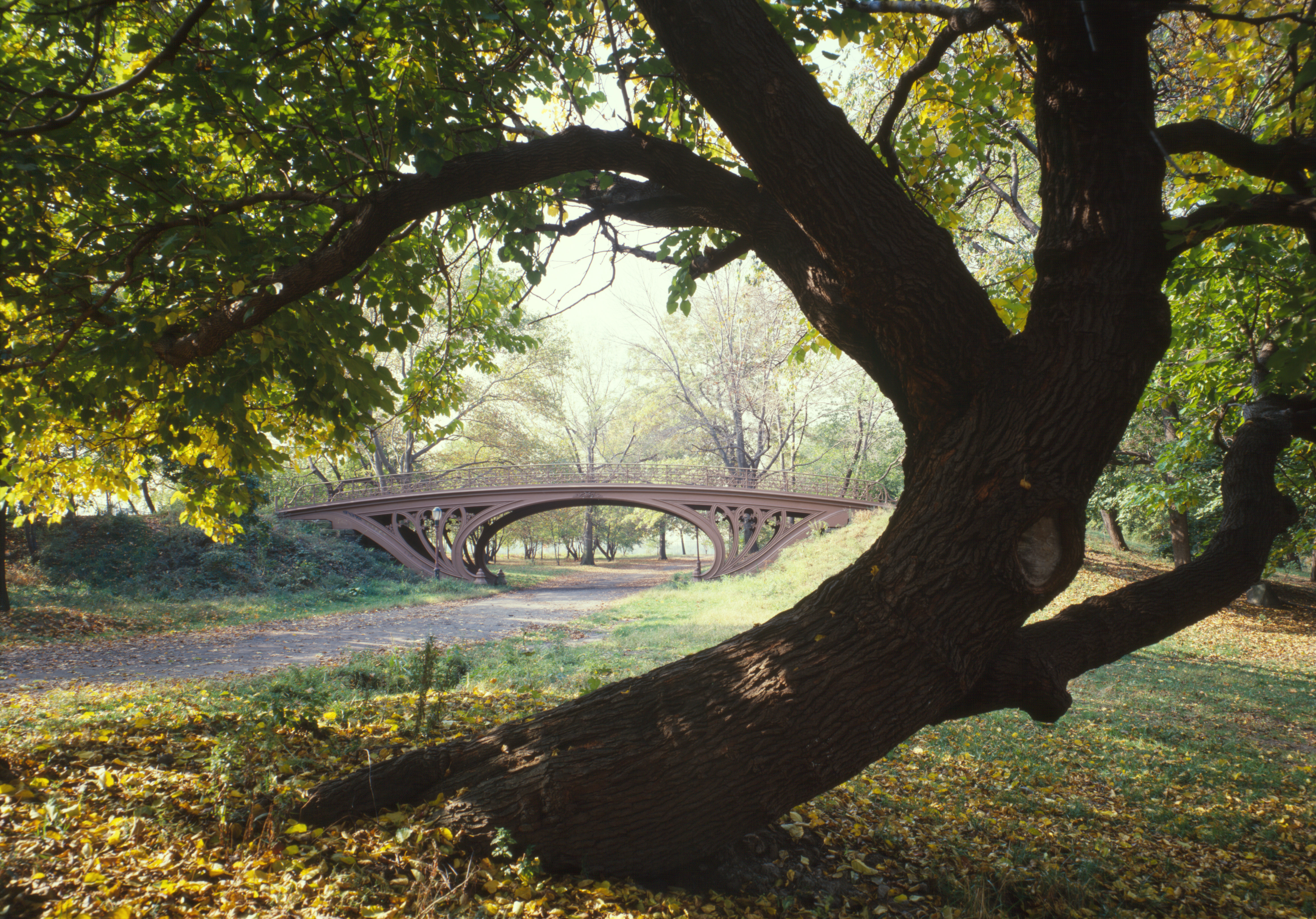 Central Park Bridges (view from Bridlepath looking southwest), Gothic Arch, Spanning bridlepath south of tennis courts, north of reservoir, New York City, New York County, NY